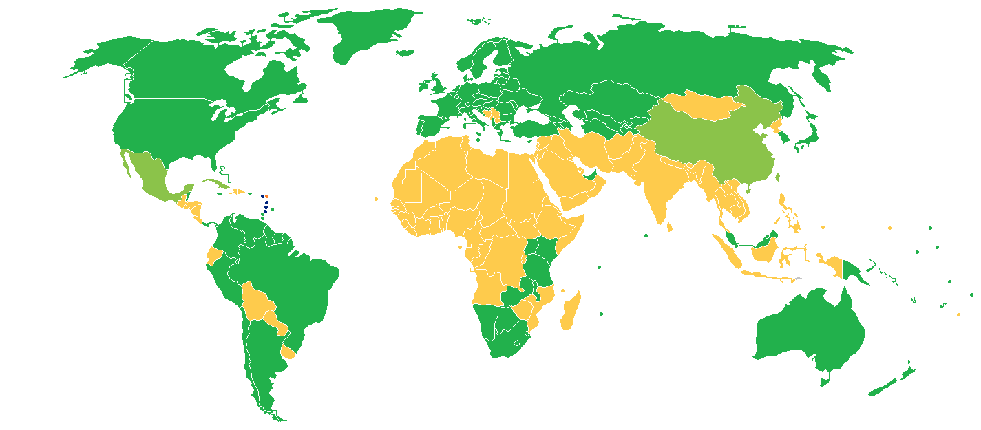 Visa policy of Antigua and Barbuda Antigua and Barbuda Freedom of movement Visa-free entry for 180 days Visa-free entry for 30 days Electronic visa